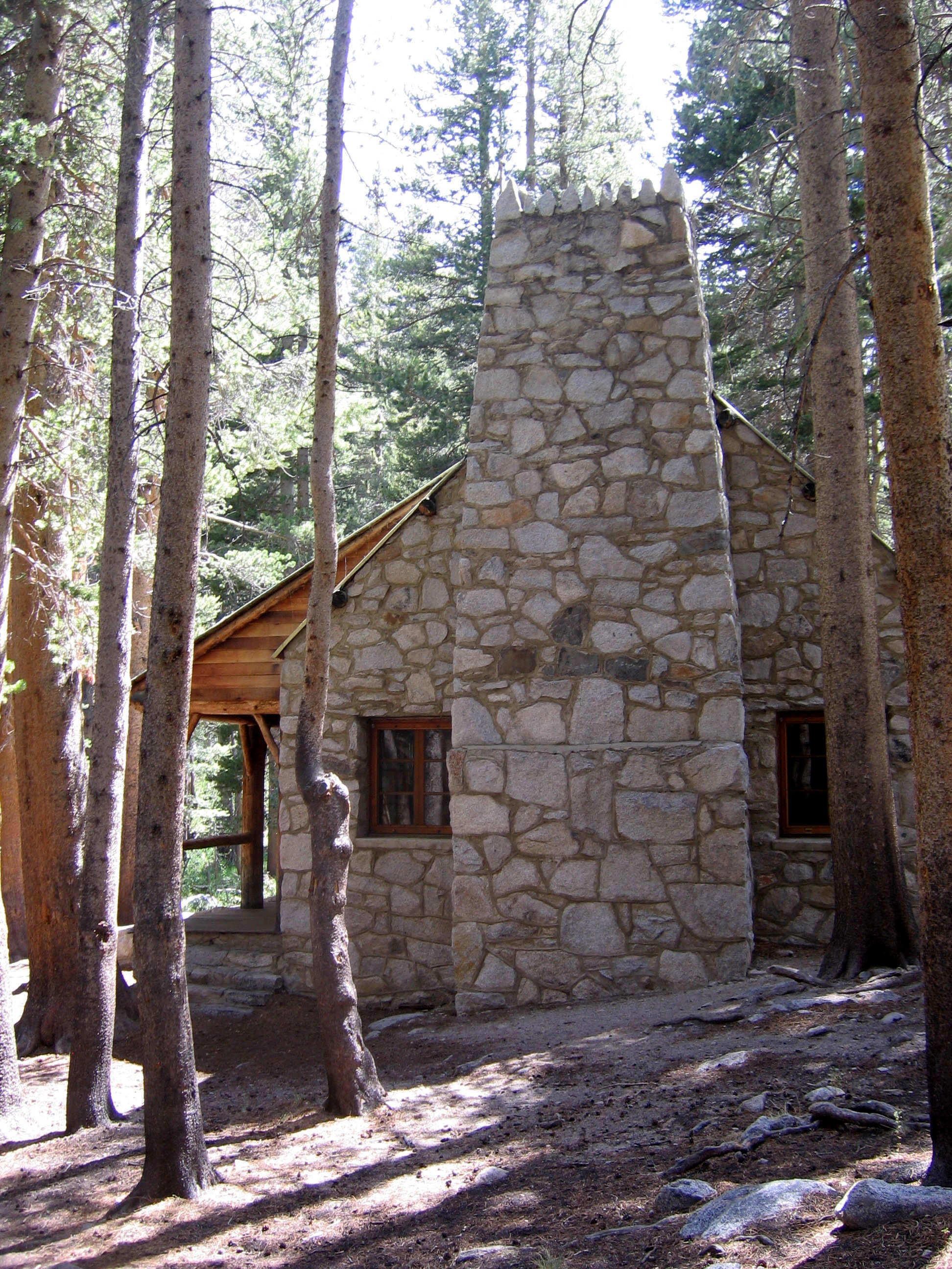 Lon Chaney High Sierra House, side view. The cabin is located in the Inyo National Forest, about 2.5 miles (4.0 km) from the Big Pine Creek trail head next to the north fork of Big Pine Creek, Eastern Sierra. The cabin was designed by Paul R. Williams, a noted architect, for Lon Chaney. The cabin was built in 1929.